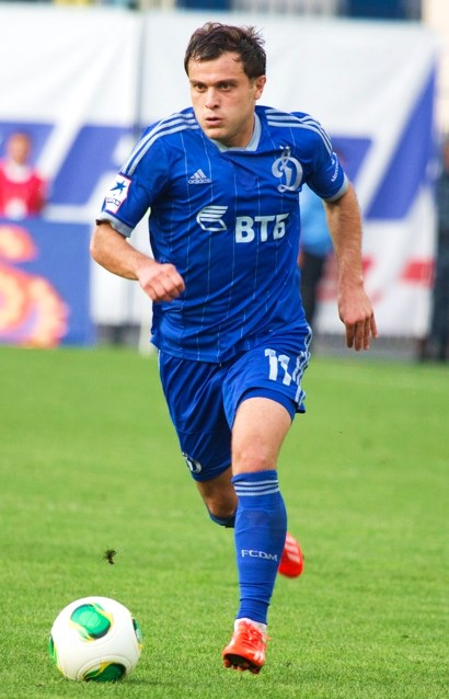 Alan Kasaev 2013